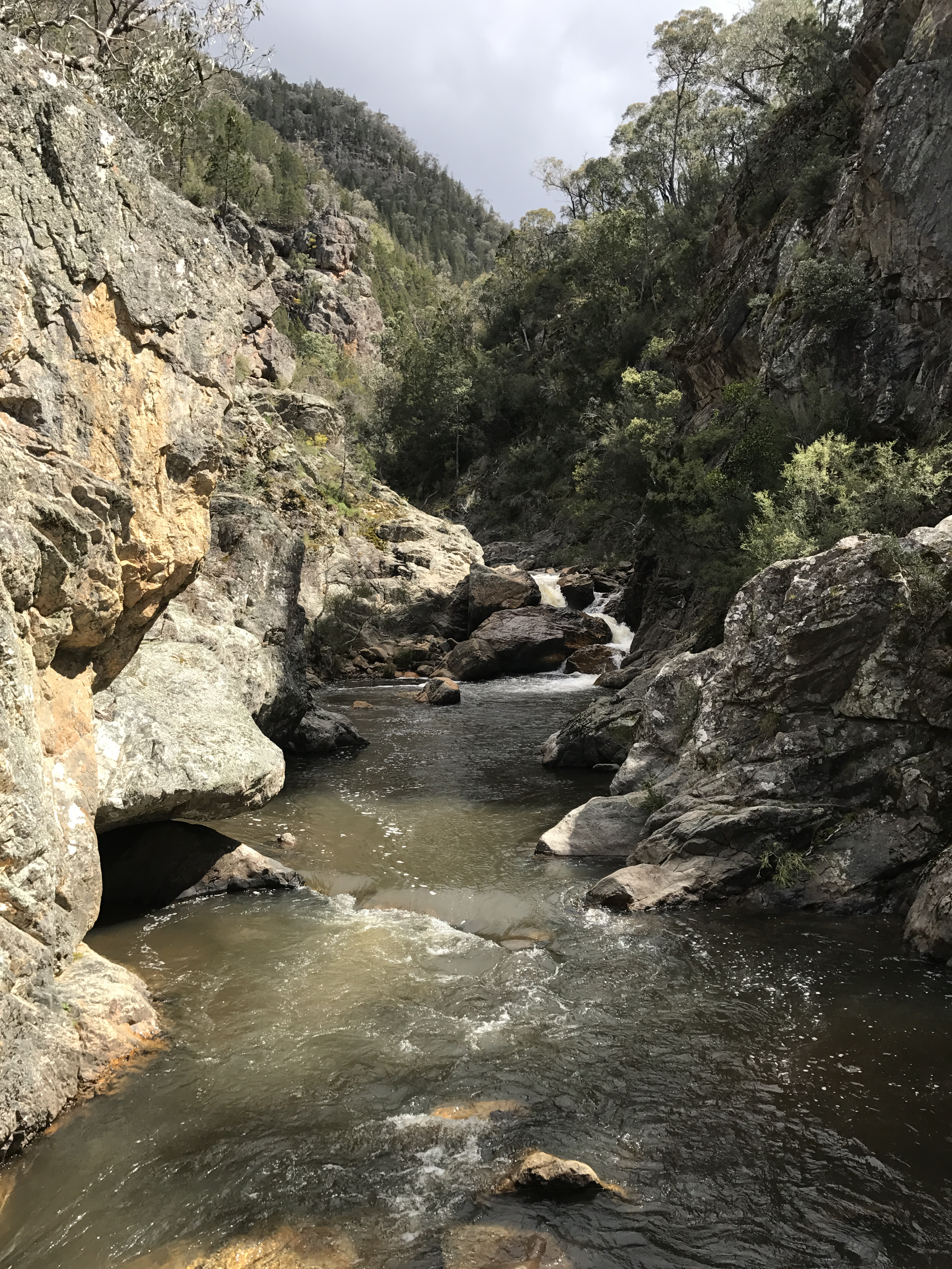 Rocky stream with mini waterfalls at Wee Jasper